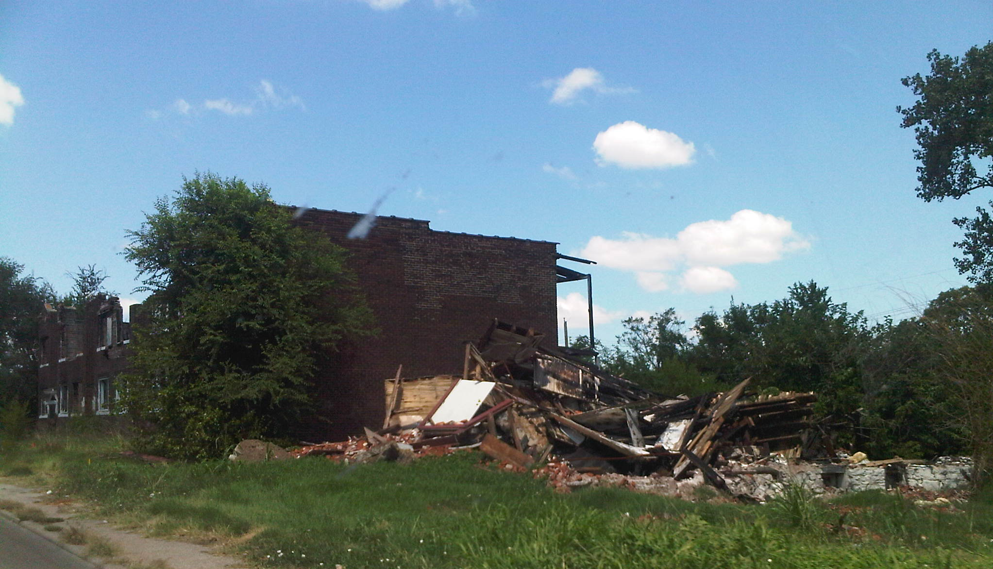 Severely damaged apartment building and a pile of debris along Mississippi Avenue in East St. Louis.